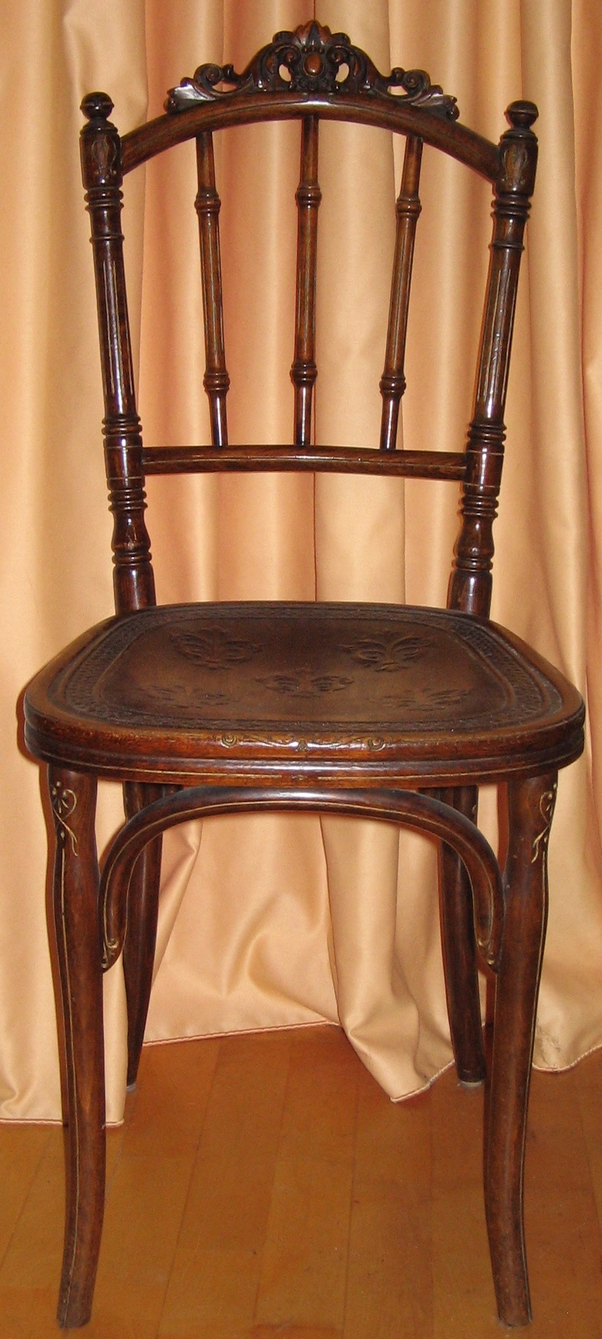 Chair by Jacob & Josef Kohn